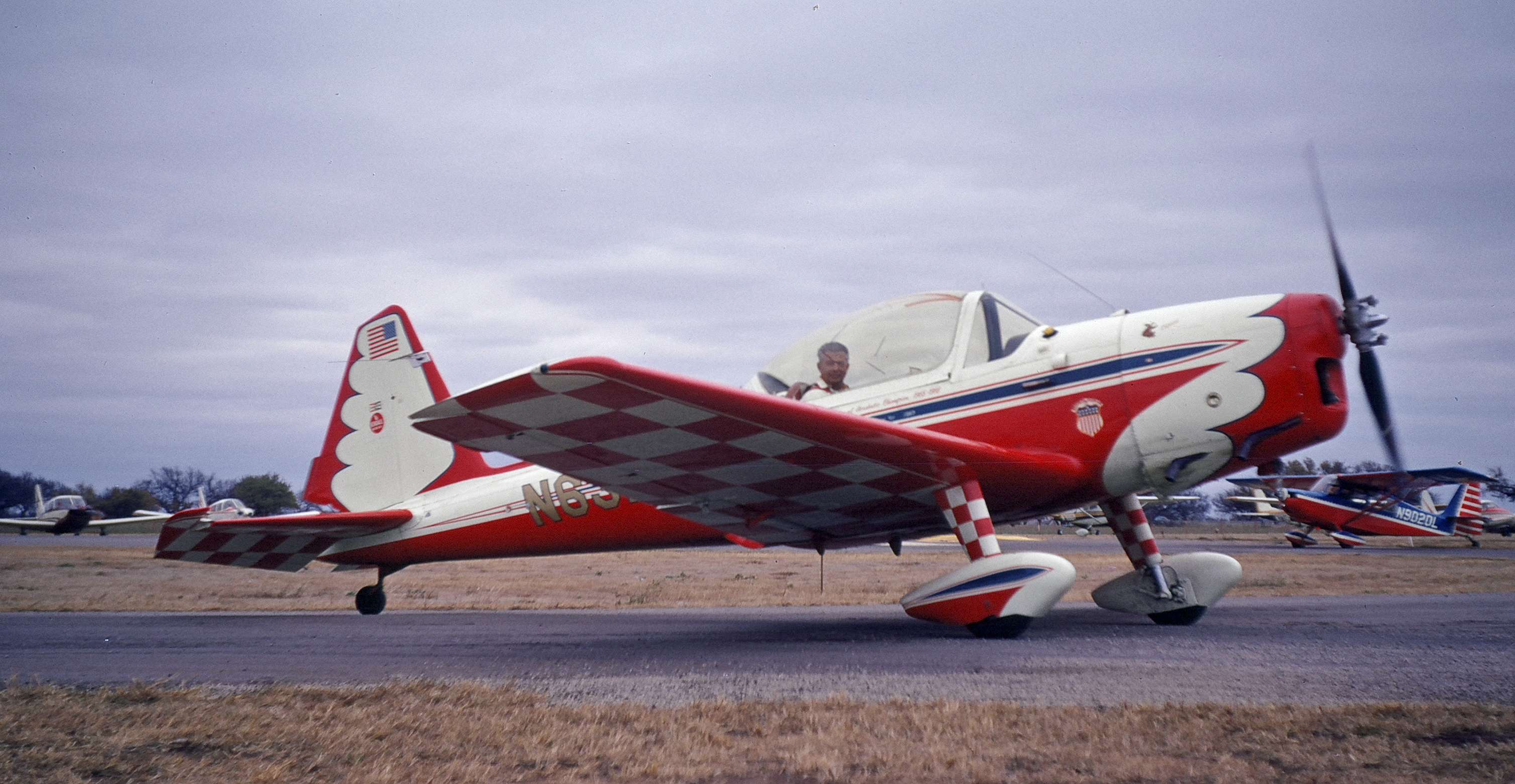 Aerobatic pilot Harold Krier, taxiing in his DeHavilland Super Chipmunk modified airshow aircraft, at an airshow in Fairview, Oklahoma, 1970.